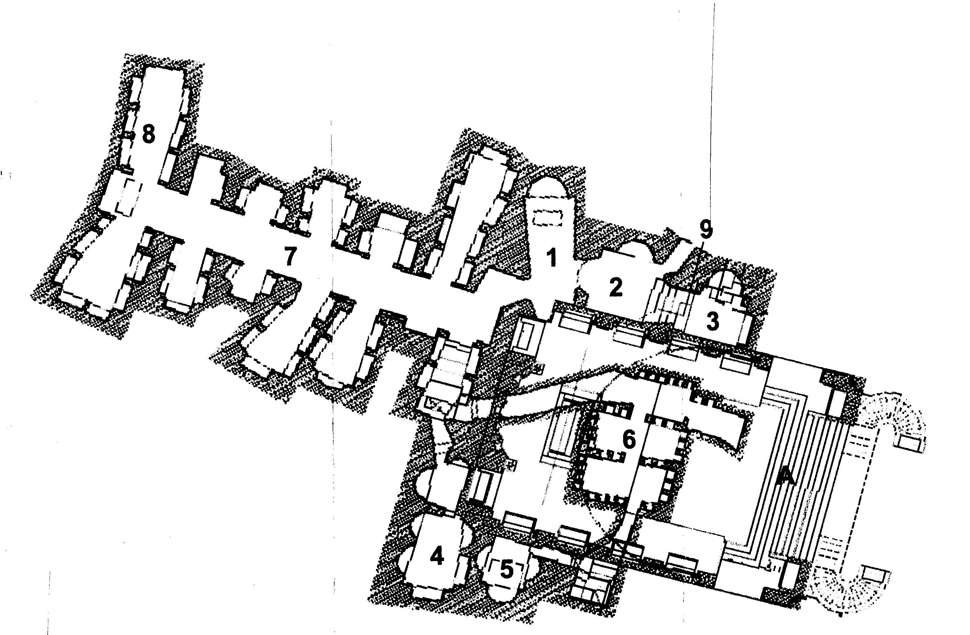 Map of San Gaudioso